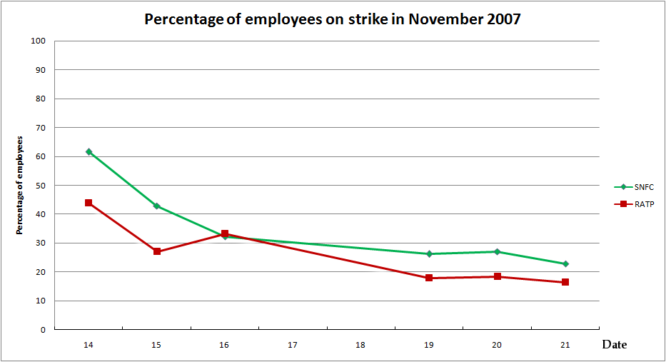 Percentage of employees of the RATP and SNCF on strike in November 2007